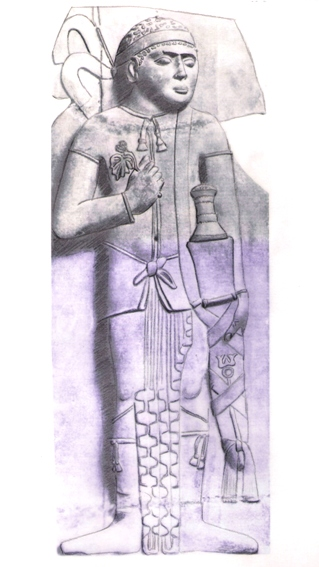 Probable Indo-Greek king, Bharhut, 2nd century BCE. Personal drawing, released under GDFL. Photo of the same relief: [1] Boardman comments on this relief: "One striking figure of a warrior decorating one of the balustrade posts has often been discussed, and sometimes even described as a Greek. He is certainly meant to be a foreigner, perhaps more generically foreign than specific in nationality, and most of his dress probably belongs somewhere in Parthia, but... his head with the curly short hair and headband with flying ends is Greek. .. The warrior's dress is gathered in vertical folds between his legs... It has no local antecedents and looks most like Greek Late Archaic mannerism." (Boardman, The Diffusion of Classical Art in Antiquity) Susan Huntington, in her book "The art of ancient India" positively identifies the subject as a Greek king in India. The sword is decorated with the Buddhist symbol of the triratana. See also: Close-up photograph and descriptions